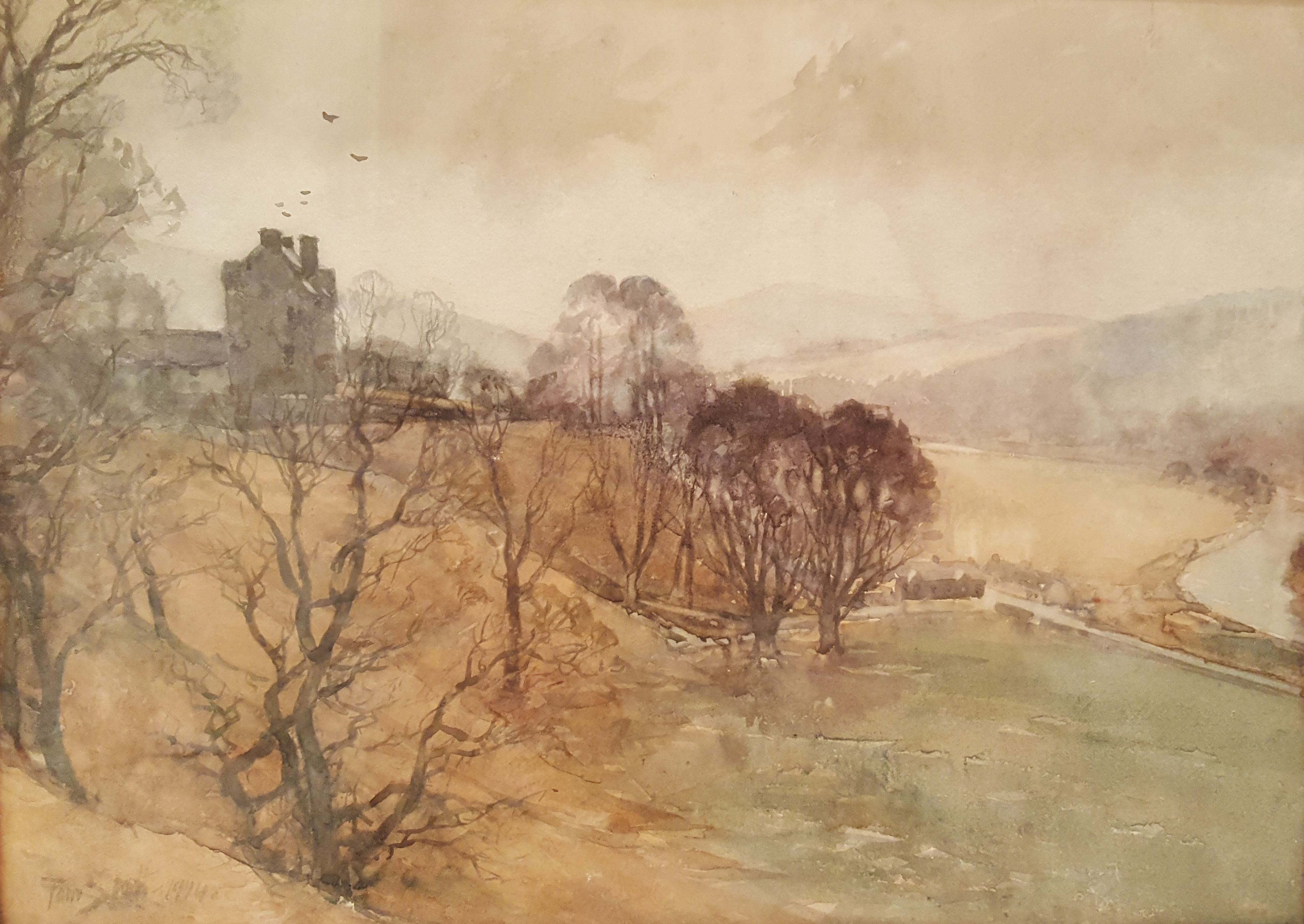 This watercolour portrays Aikwood Tower near Selkirk, on the Ettrick Water. The tower was built in 1535, but in the late 18th century it was abandoned as a dwelling and used instead as a store on the adjoining farm. The building was restored in the 1990s by the Liberal politician Lord (David) Steel.